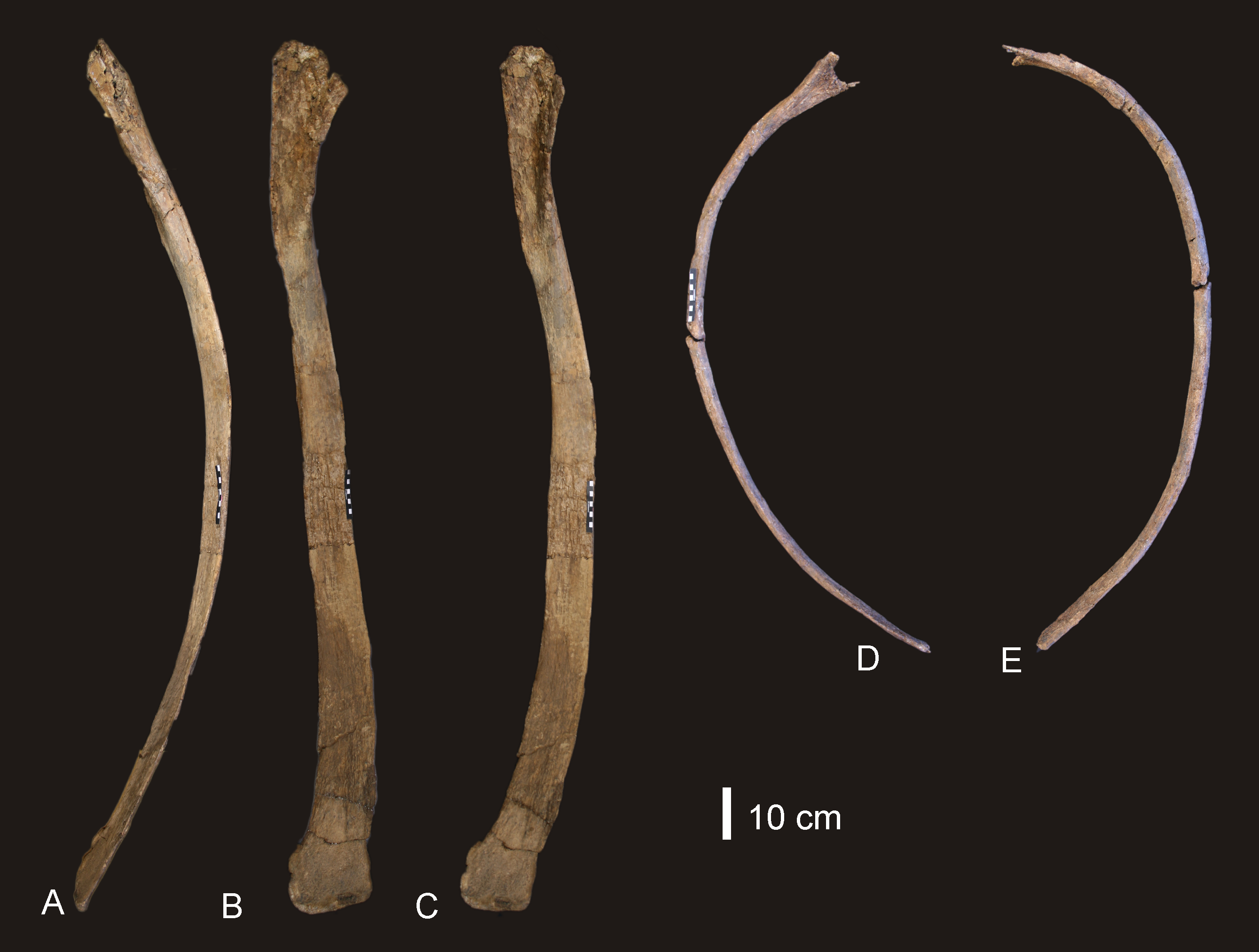 Mid-dorsal rib in lateral (A), anterior (B) and posterior (C) views. Posterior dorsal rib in posterior (A) and anterior (B) views.